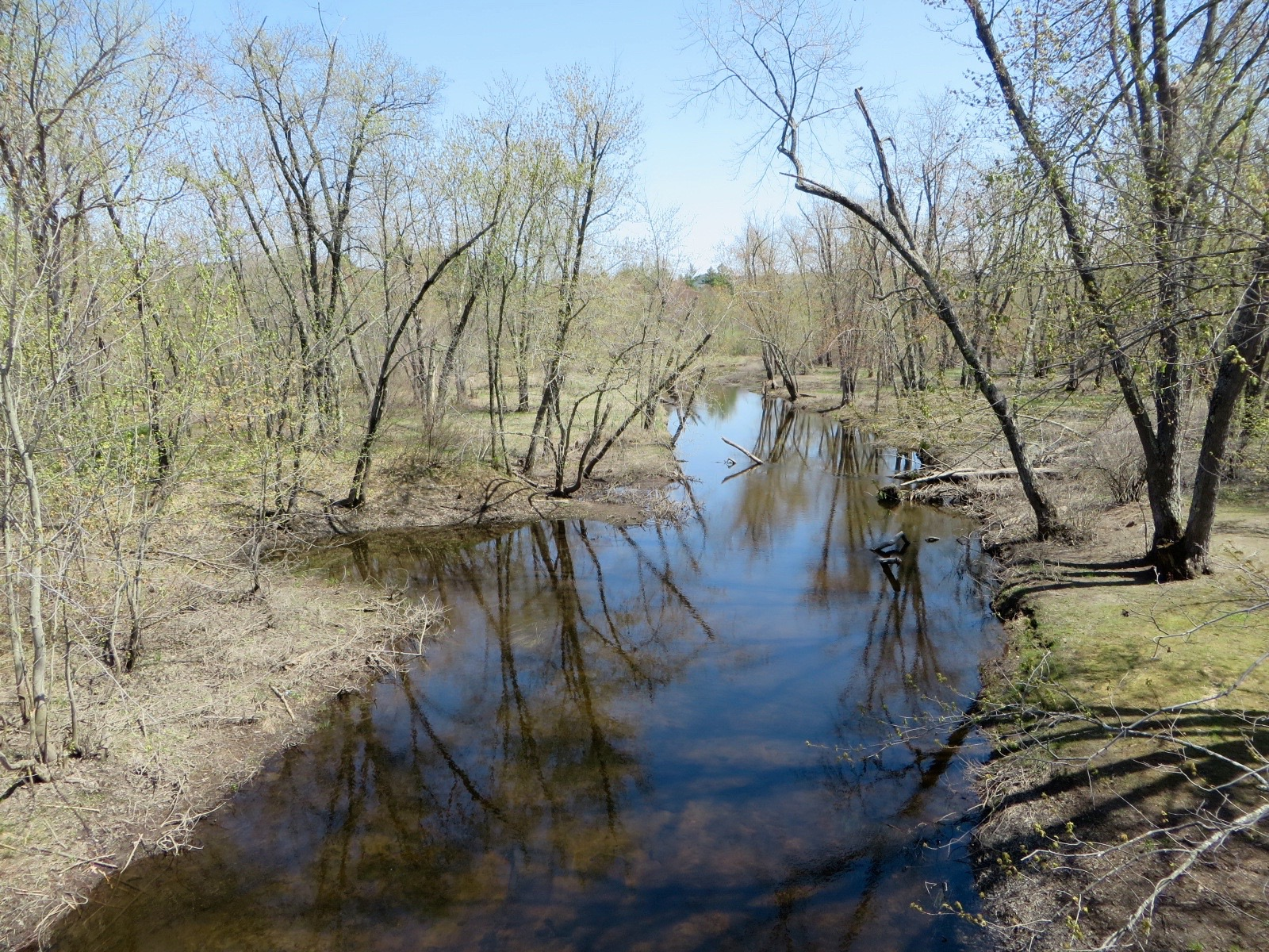 Mirey Brook, Winchester. Photo by Ken Gallager, May 2015.